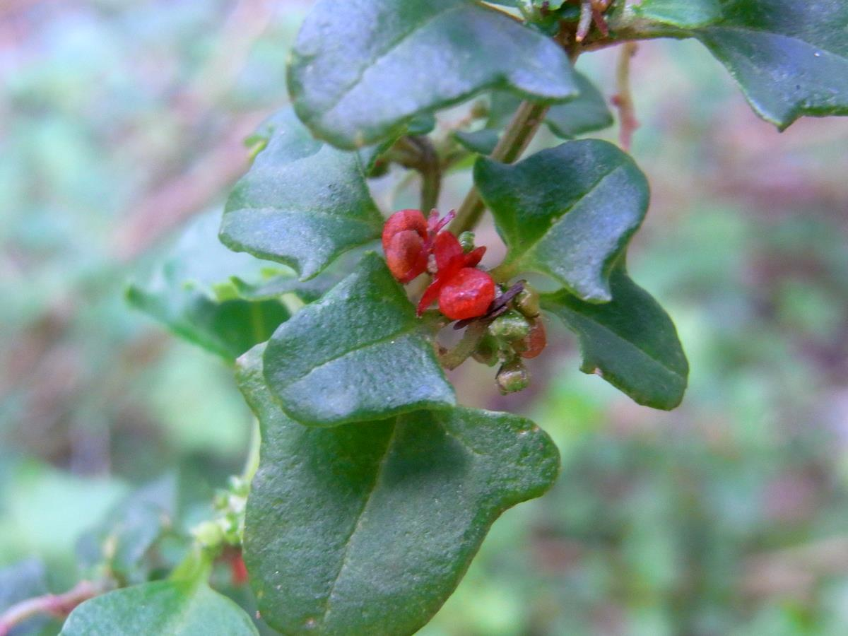 Chenopodium hastatum (Syn. Einadia hastata) at Brush Farm, Eastwood, NSW, Australia